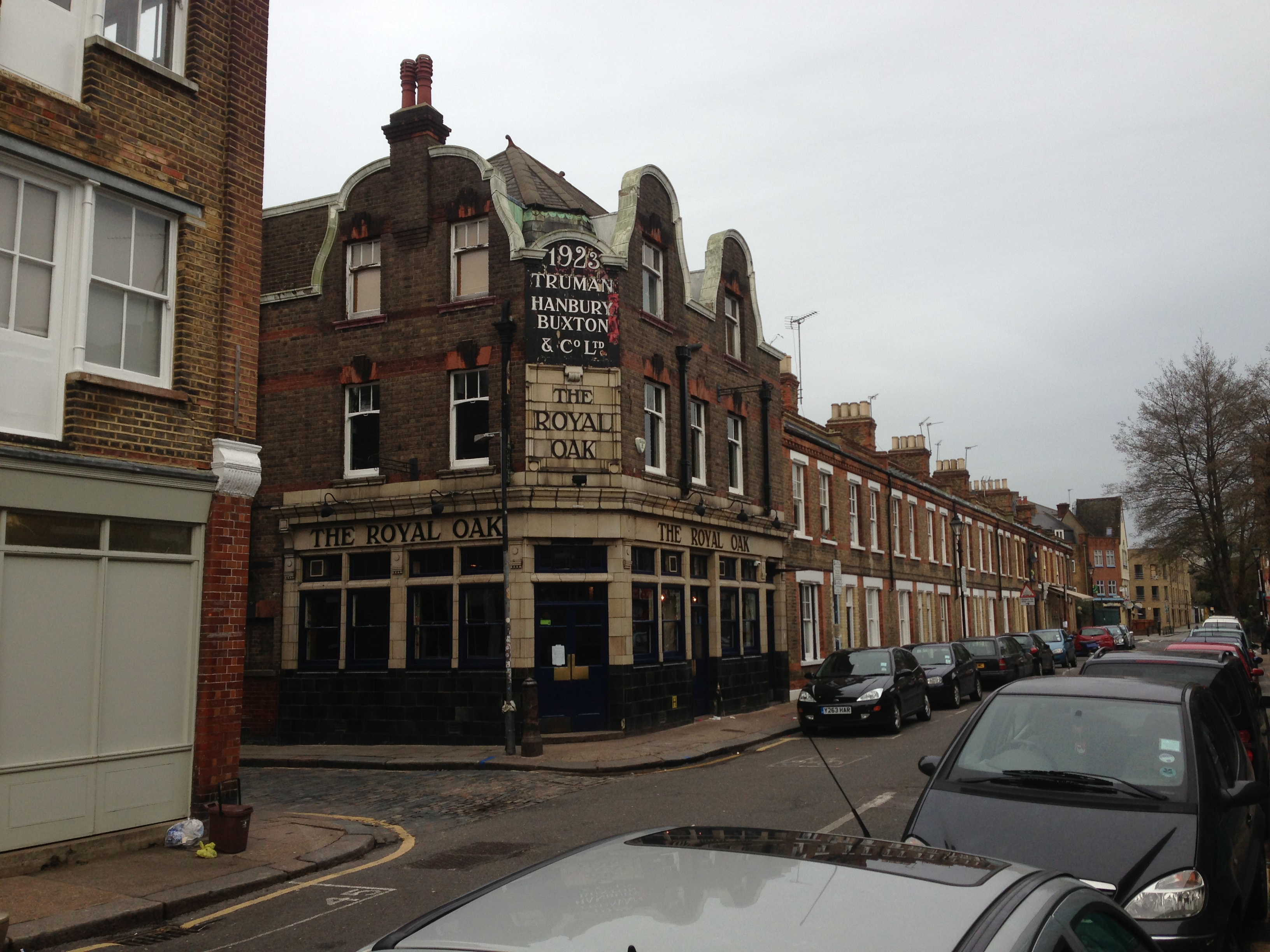 The Royal Oak, Shoreditch on Columbia Road.